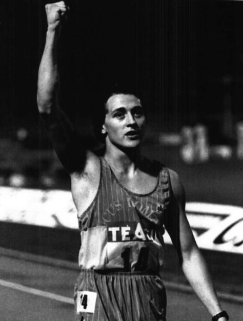 Stefano Tilli after a race in Italy, with the jersey of CUS Roma